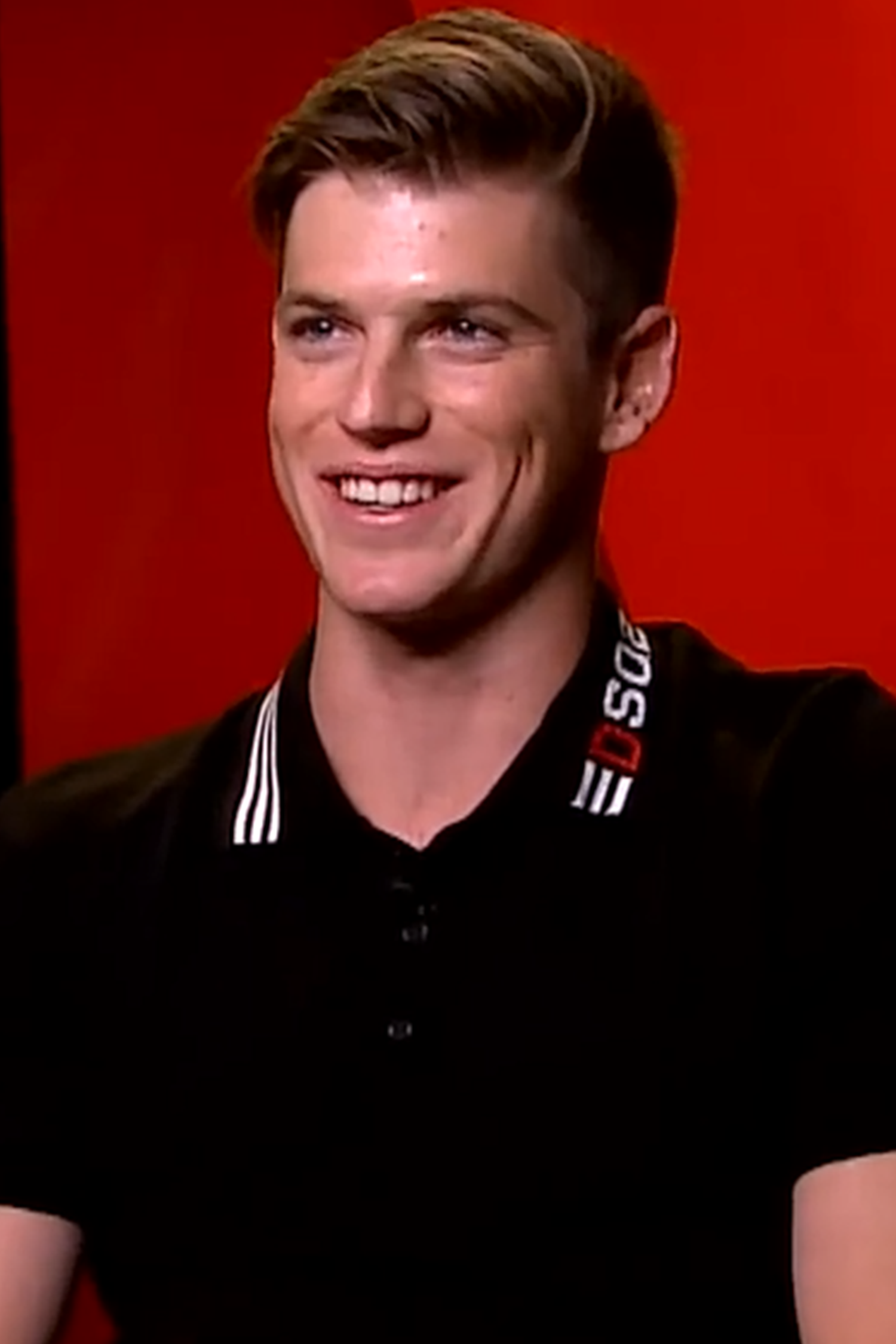 Miguel Bernardeau during an interview on the serie Élite, on September 23, 2018.